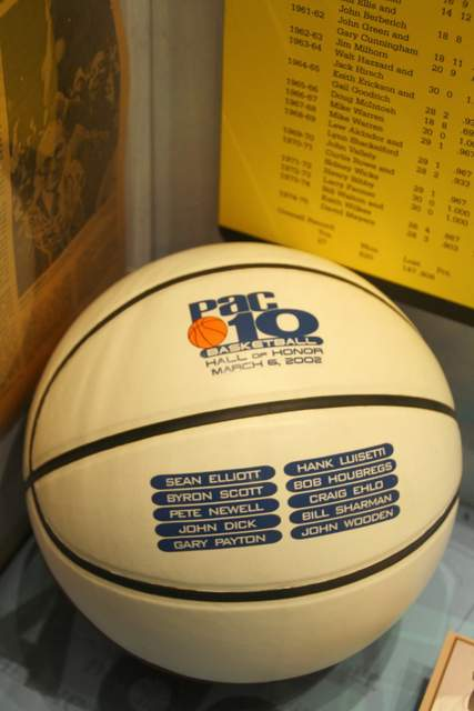 Ball in the UCLA Athletics Hall of Fame commemorating 2002 inductees to Pacific-12 Conference Men's Basketball Hall of Honor (then known as Pac-10)